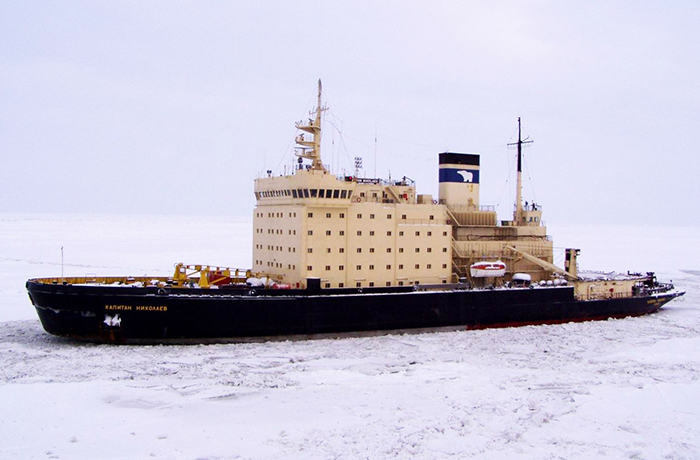 Icebreaker Kapitan Nikolaev